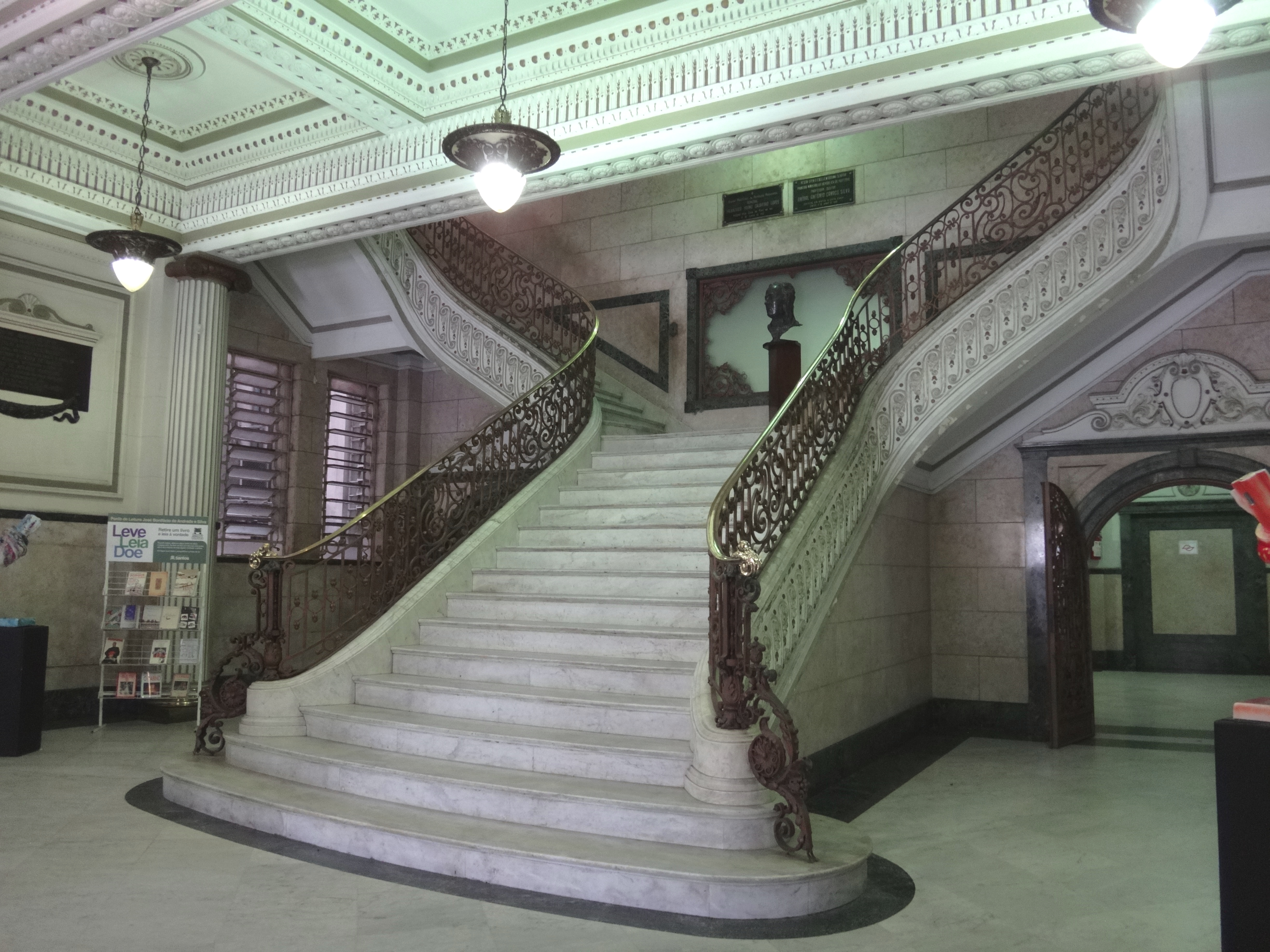 Inner stairway in the Municipality of Santos